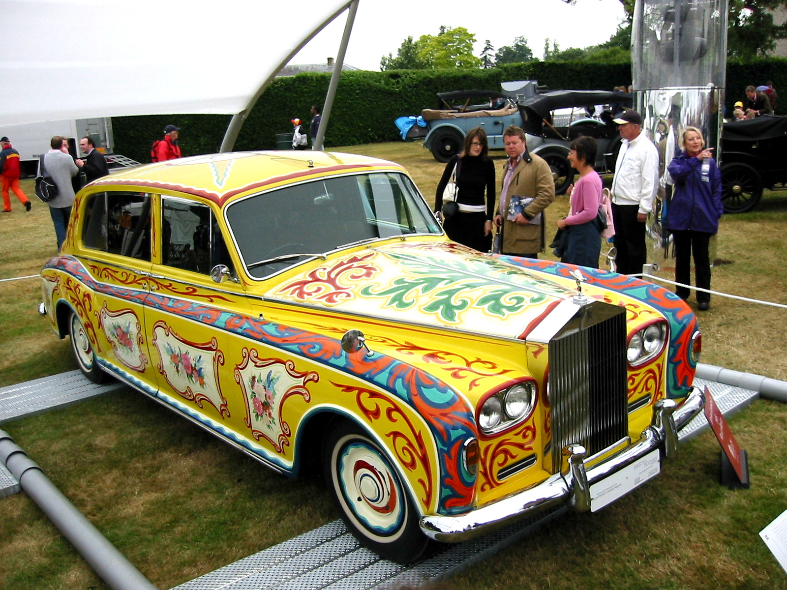 John Lennon's 1965 Rolls-Royce Phantom V. It contains a telephone, television, refrigerator and the rear seat has been converted into a bed. Engine is a 6.2l V8 Top Speed 110mph.